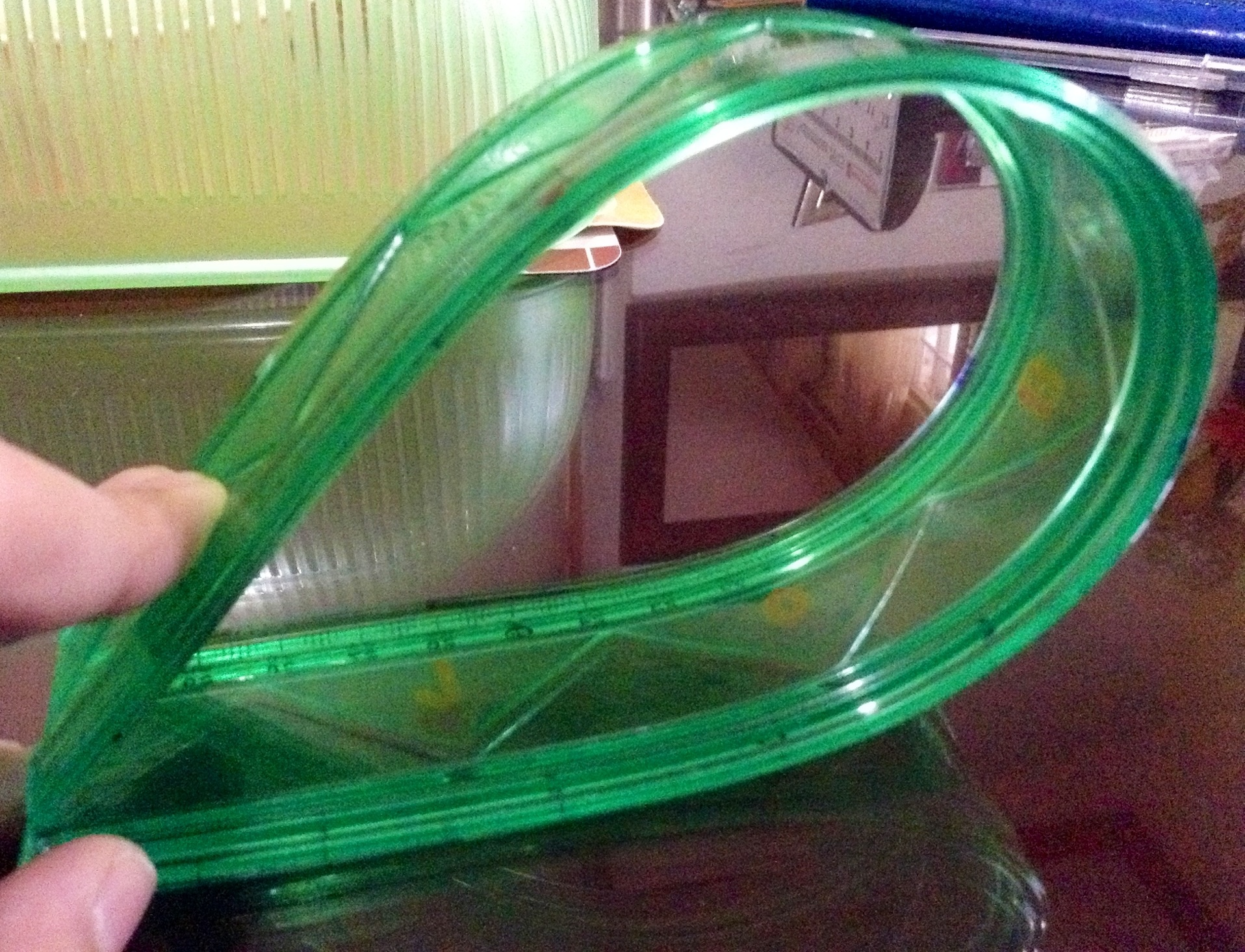 A green flexible ruler stretched.